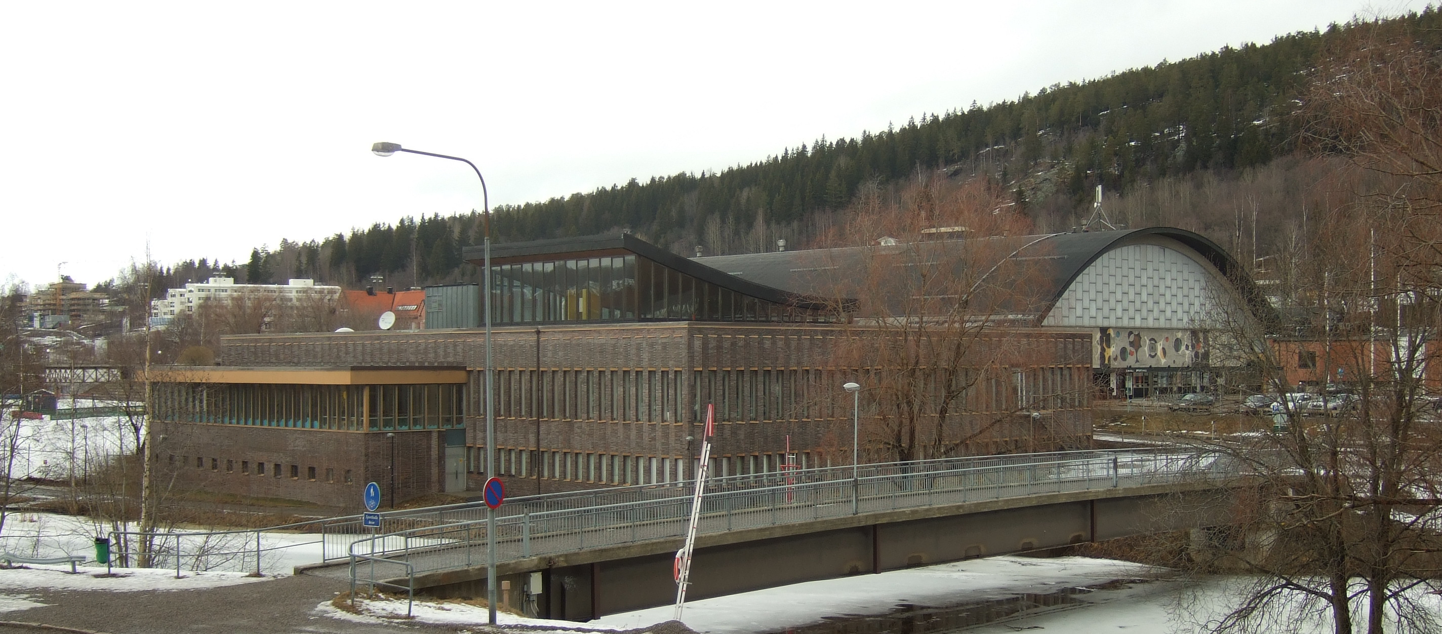 The sports venue "Sporthallen" at Universitetsallén 11 in Sundsvall, viewed from southeast (Ågatan) (cropped from original image)